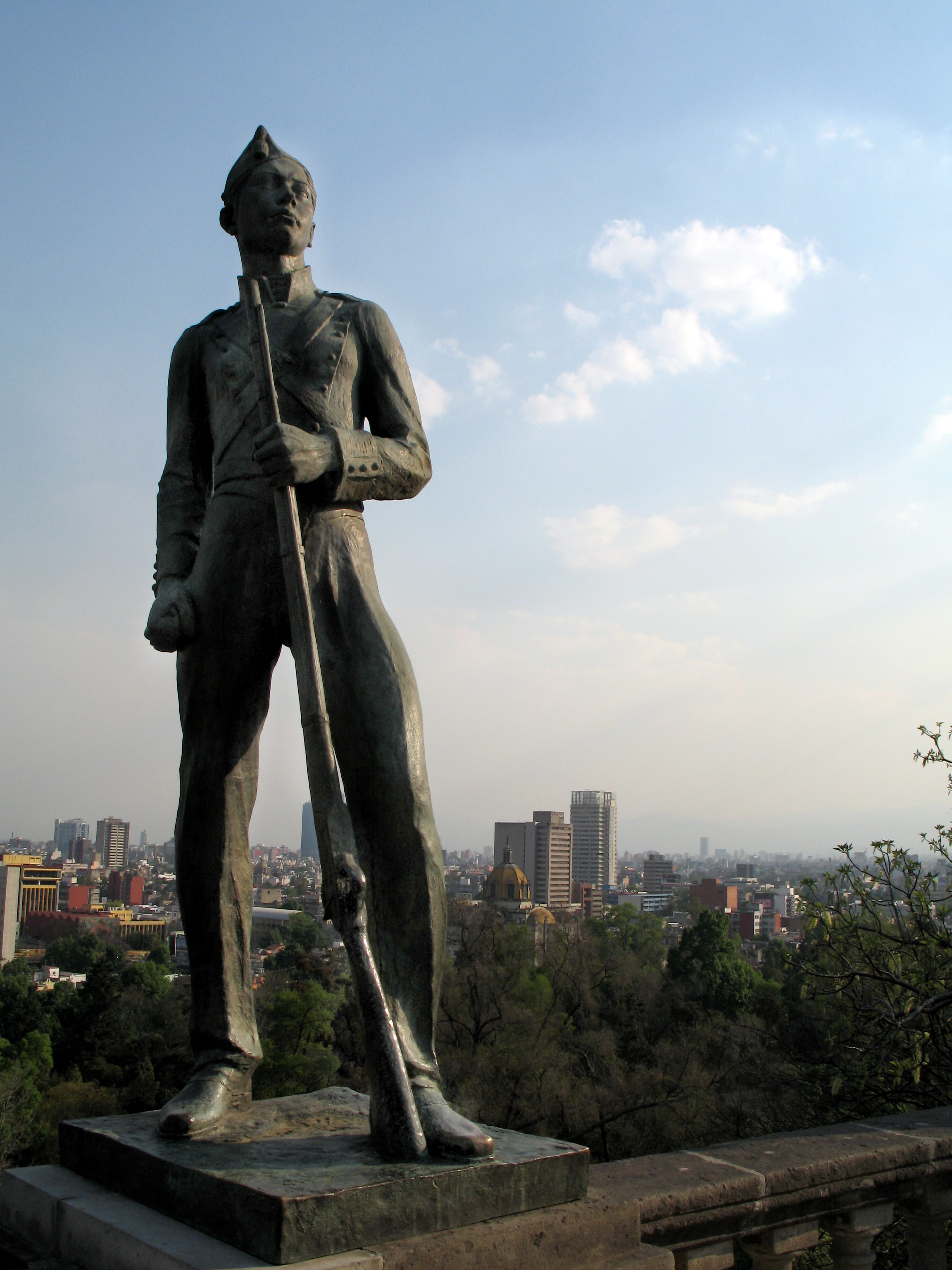 Statue devoted to one of the niño heroes along a walkway at the top of el Castillo de Chapultepec.